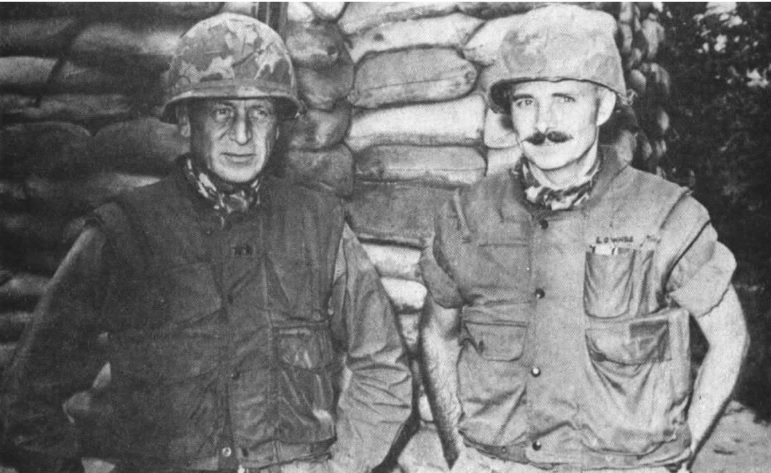 MG Rathvon M. Tompkins (3rd Marine Division) and David E. Lownds (26th Marines) during Khe Sanh Operation.